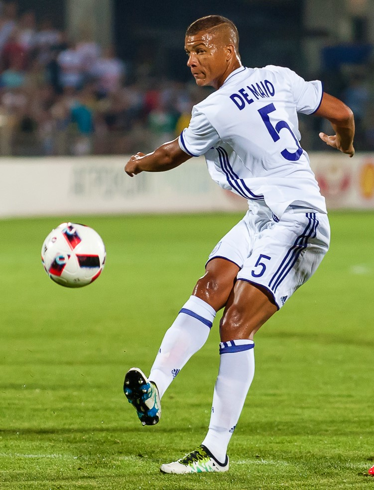 Sebastian De Maio